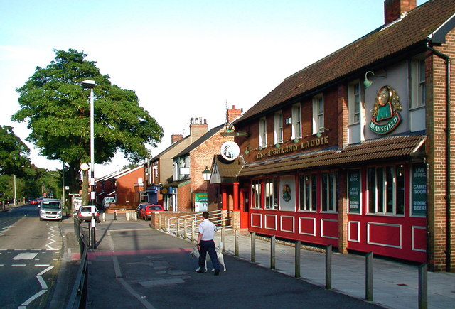 Southcoates Lane, Hull Looking east from the corner of Newbridge Road, with The Highland Laddie pub on the right.